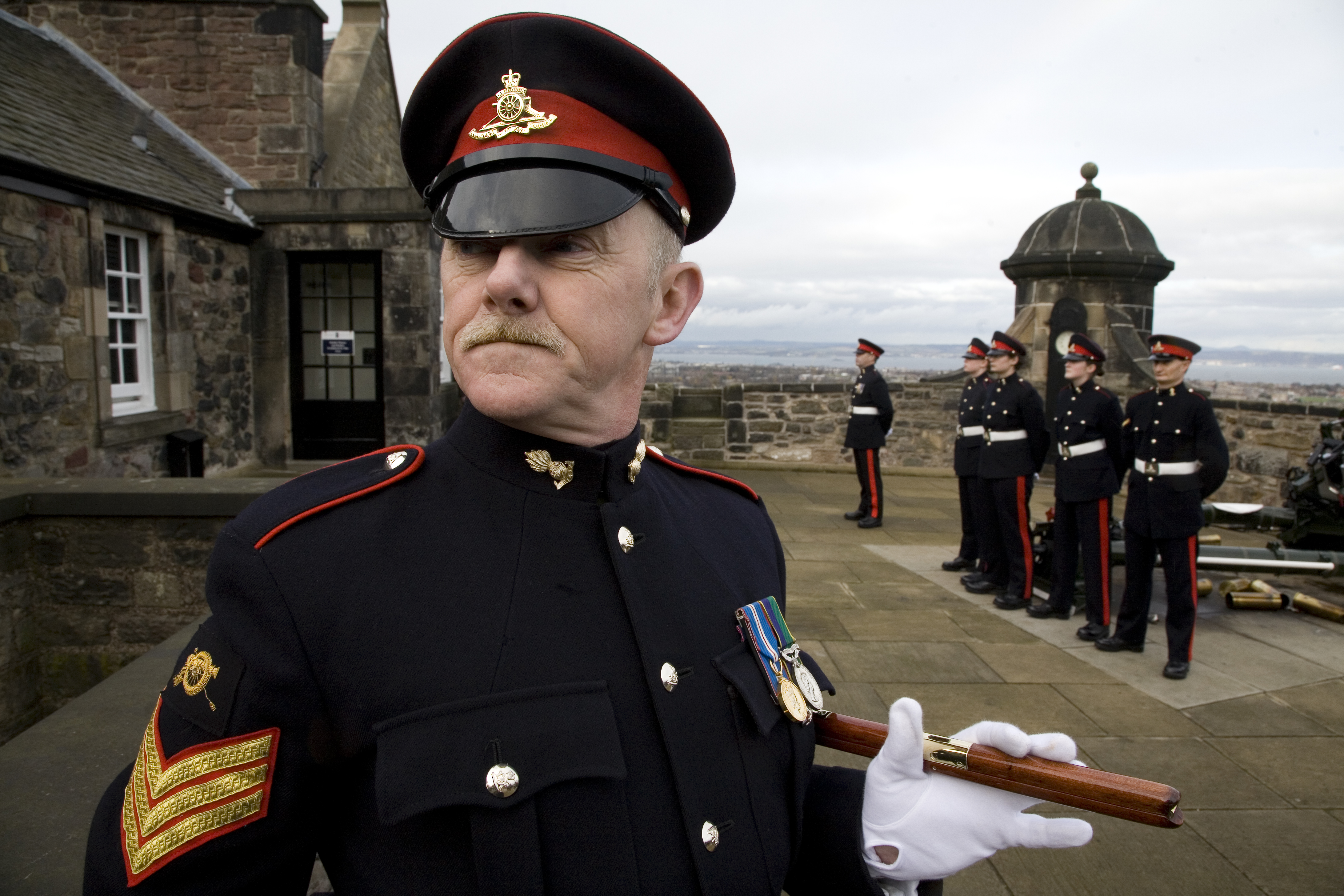 Sergeant Jamie Shannon of the 105 Regiment Royal Artillery stands in the Middle Ward, Edinburgh Castle. As District Gunner, he has just supervised the firing of the One O'Clock gun, which points east over the Mills Mount Battery wall. The rest of the gunners are formed up behind the gun, to the right. To the left is the stairway down to the Western Defences, and the side of the cart shed (now the cafe).